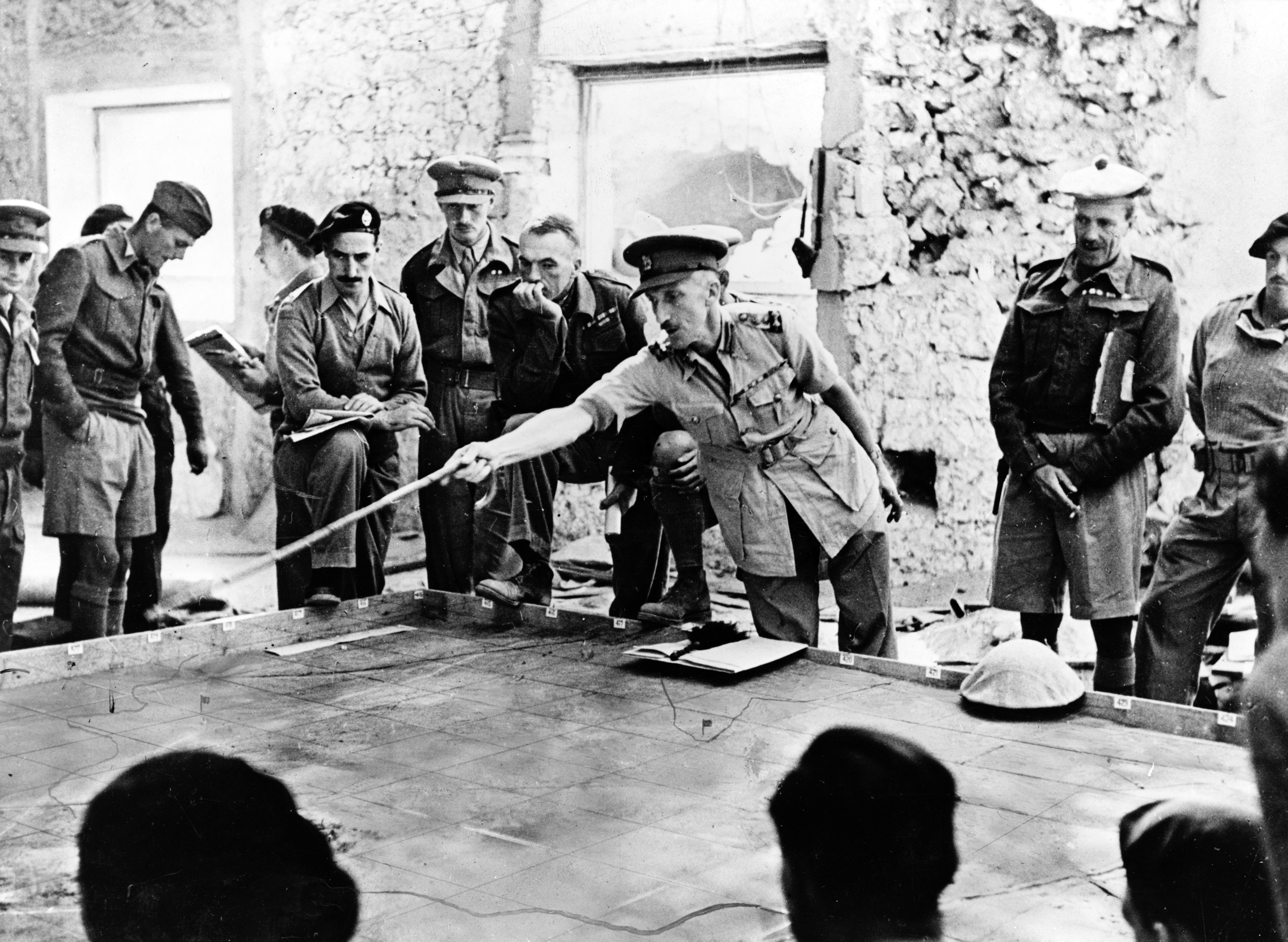 The second battle of Libya. Before zero hour. The Brigadier commanding tank units in Tobruk instructing tank commanders on the operations, using a sand table for demonstration purposes. Official British Army photo No. BO 773 [BM 7241].